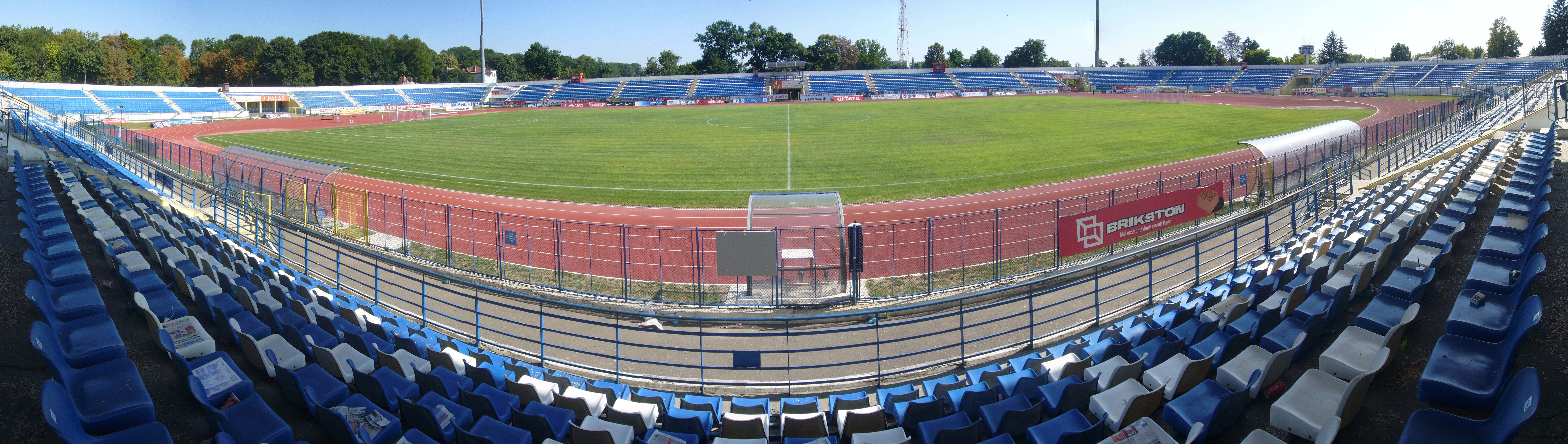 Panorama of the Emil Alexandrescu Stadium.